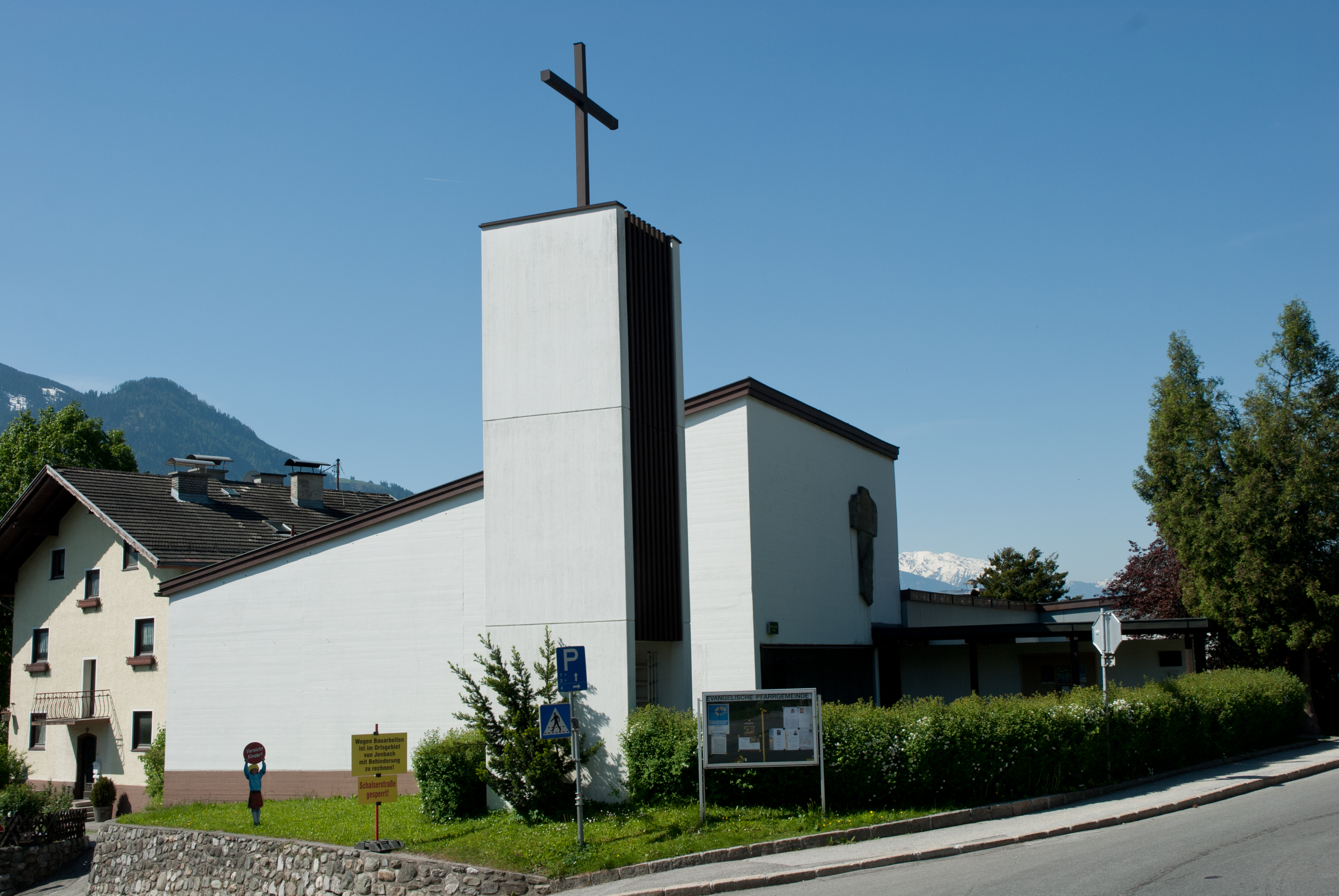 Evangelische Erlöserkirche in Jenbach This media shows the remarkable cultural object in the Austrian state of Tyrol listed by the Tyrolean Art Cadastre with the ID 15777.